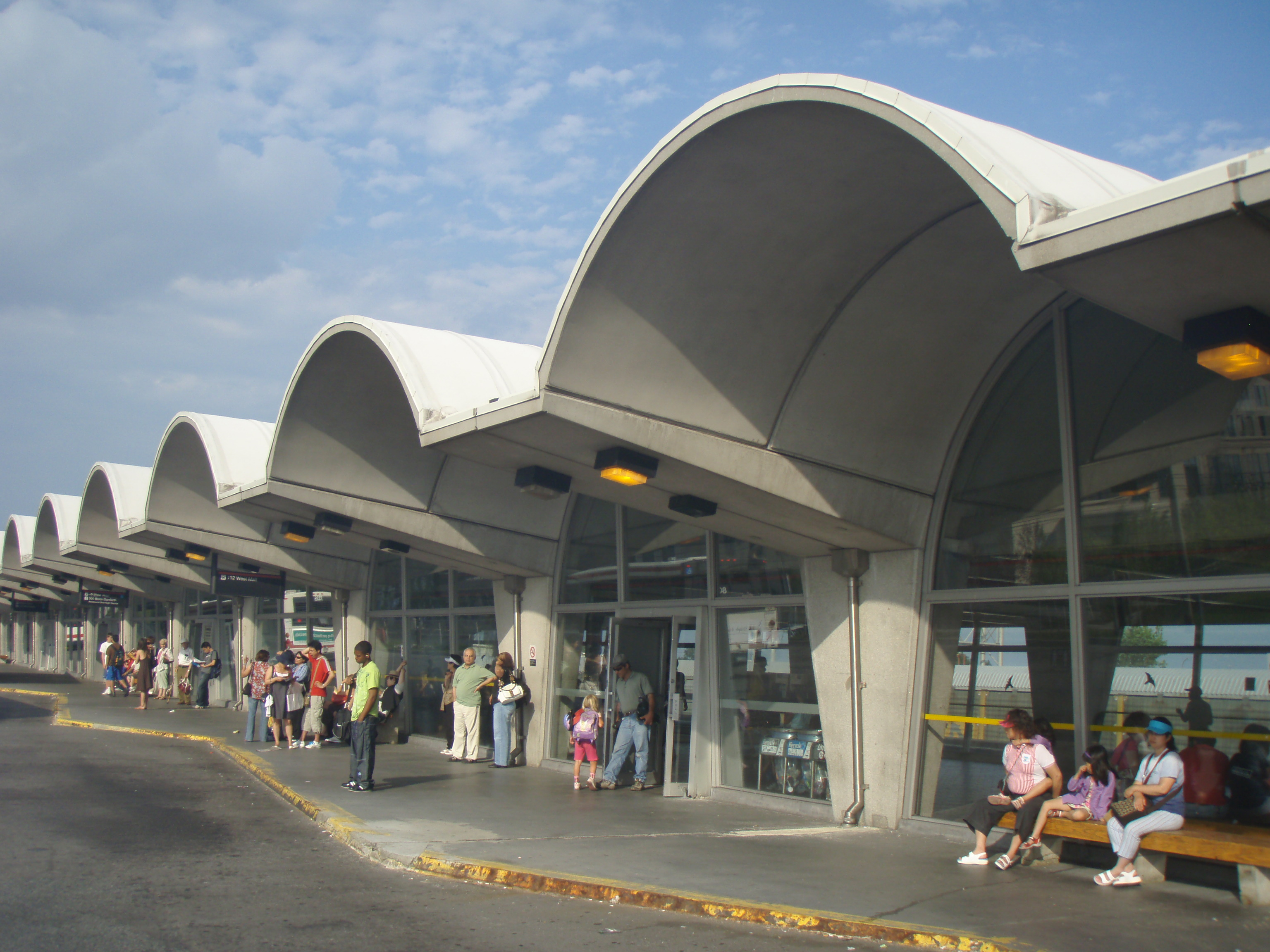 All those happy arches at Kipling subway station in Toronto